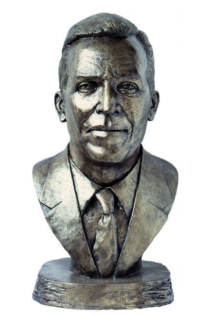 Bust of Frank Pétillon, founder of DGM, made ​​after his death.